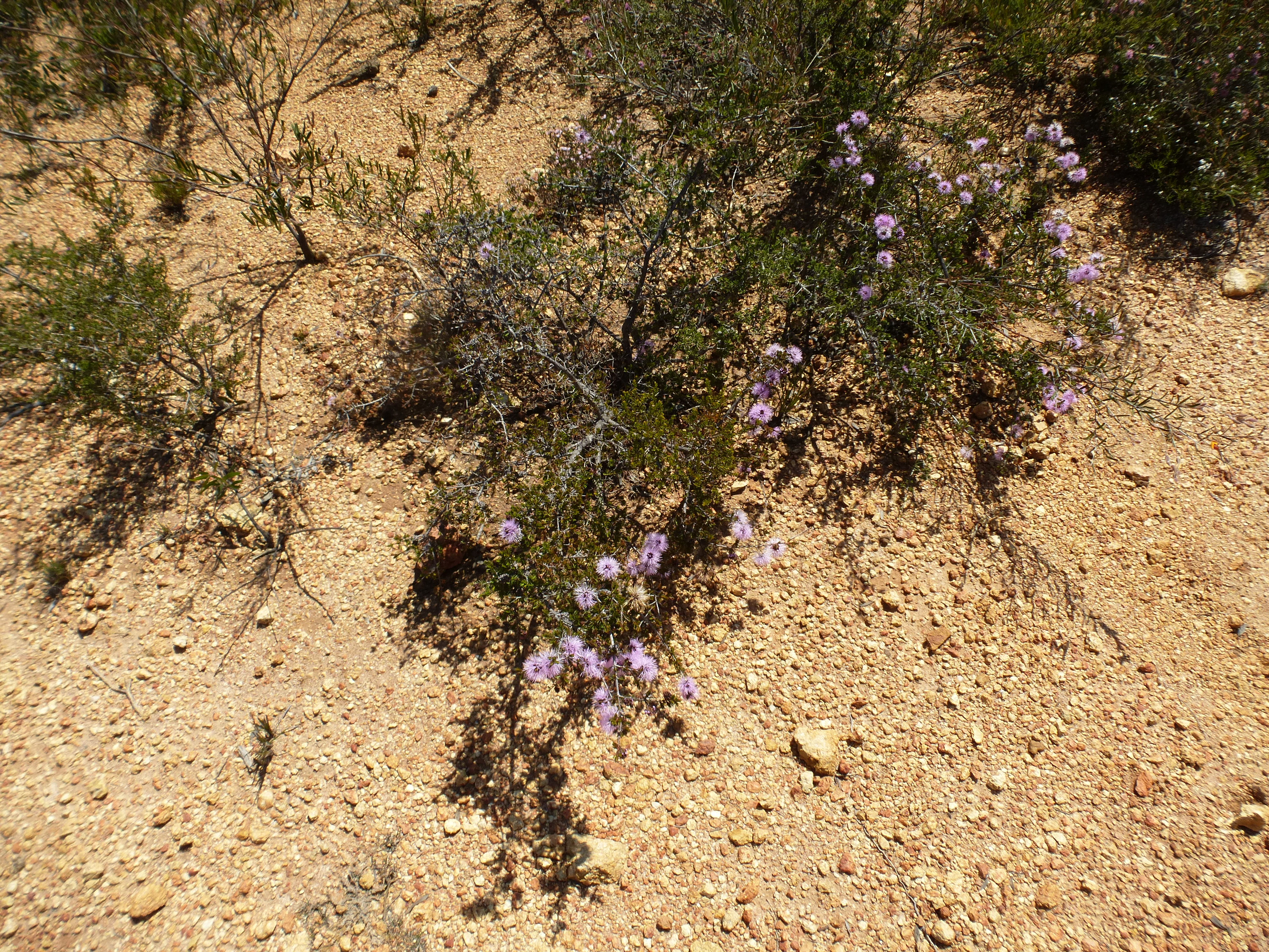 Beaufortia schaueri growing 5 km south of Ravensthorpe